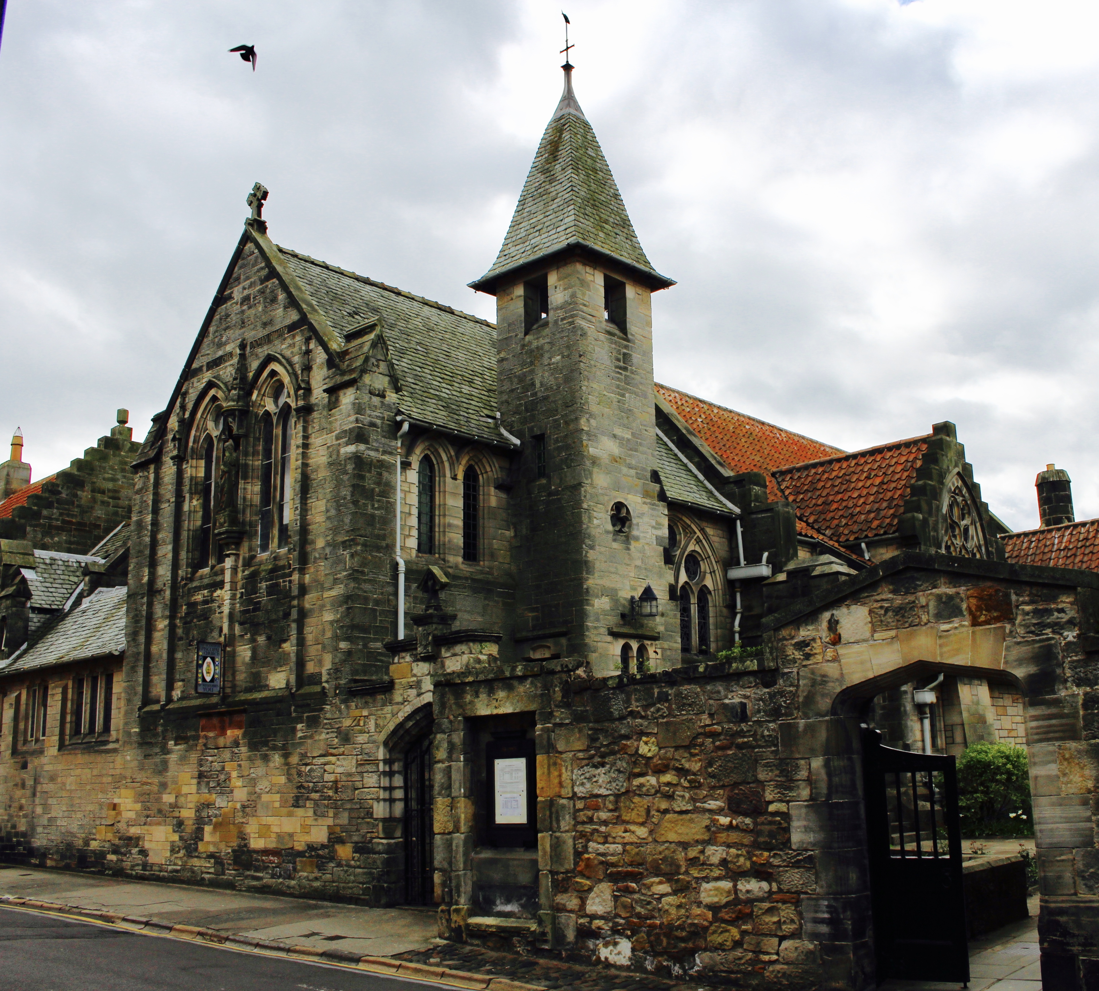 St Andrews, North Castle Street, All Saints Episcopal Church Wikidata has entry Q17570684 with data related to this item.